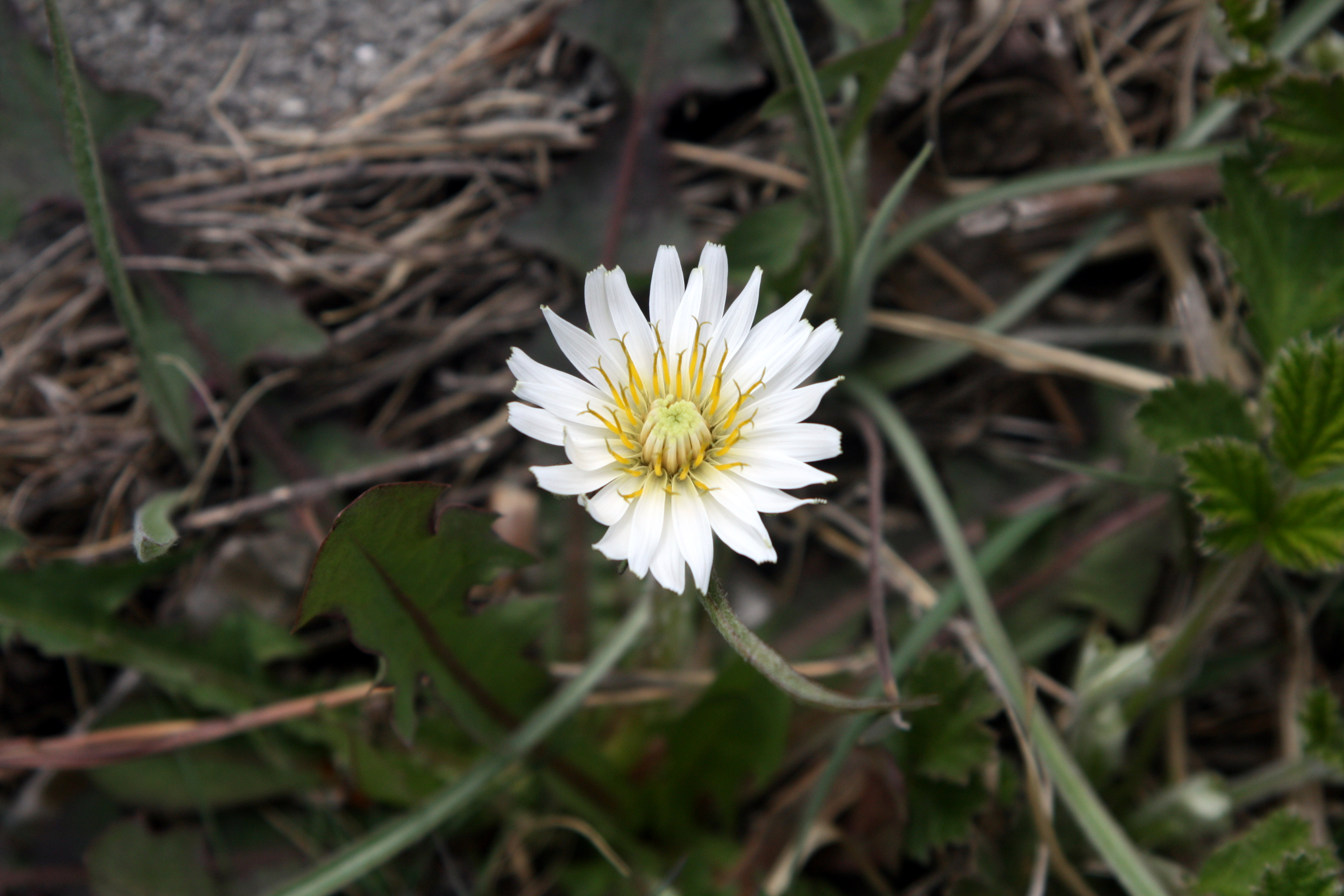 Taraxacum albidum in Bupyeong, Korea